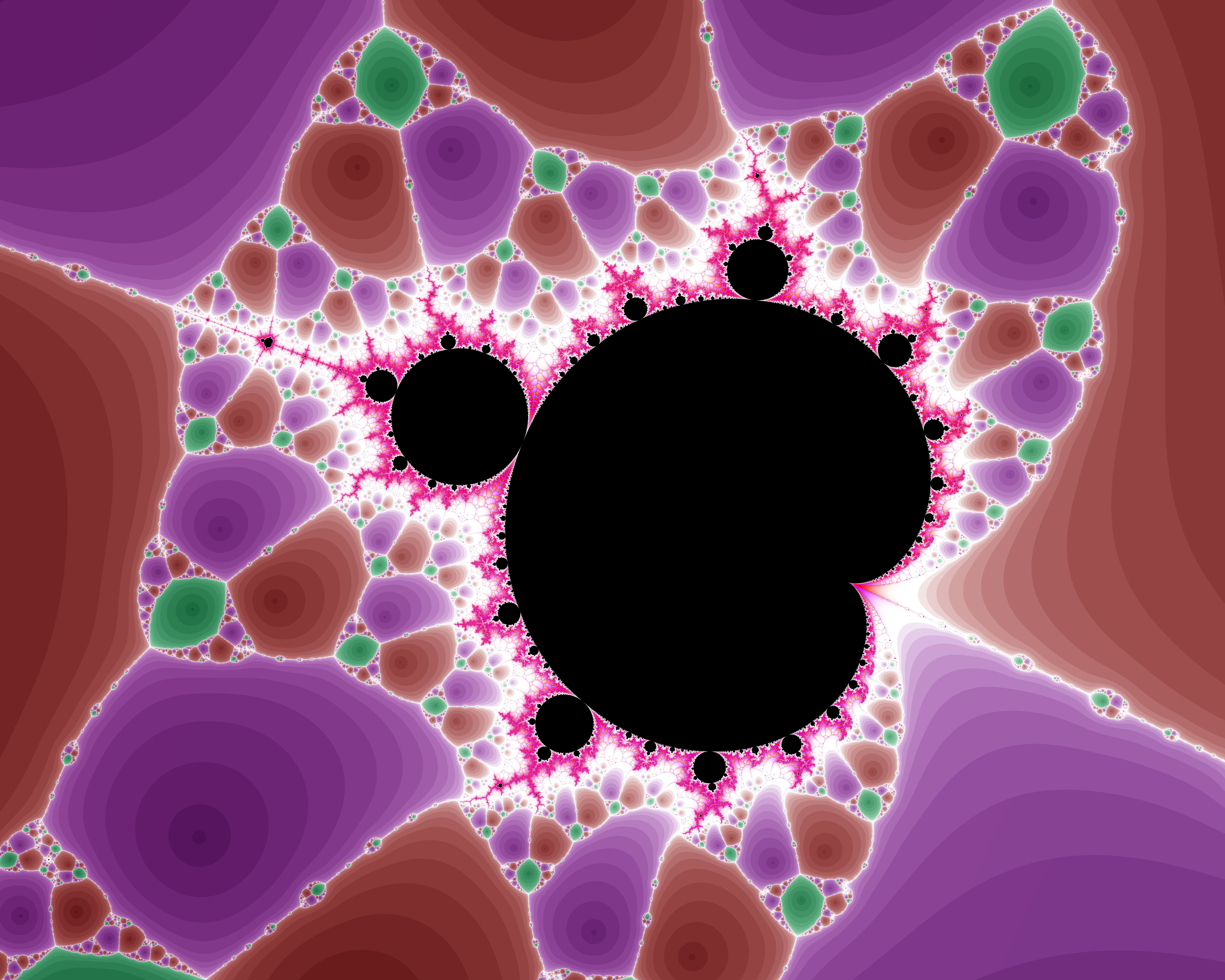 Computergraphical study of the critical point 0 of some polynomials p λ {\displaystyle p_{\lambda under Newton's method in the complex λ {\displaystyle \lambda } -plane